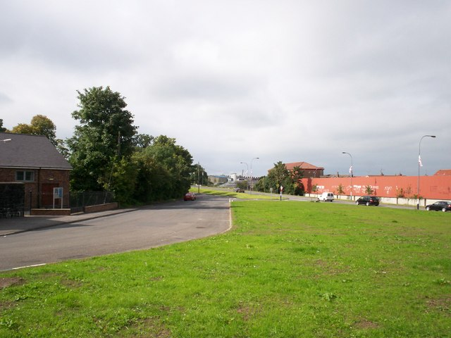 Montague Street leading on to the Corcrain Road, Portadown.